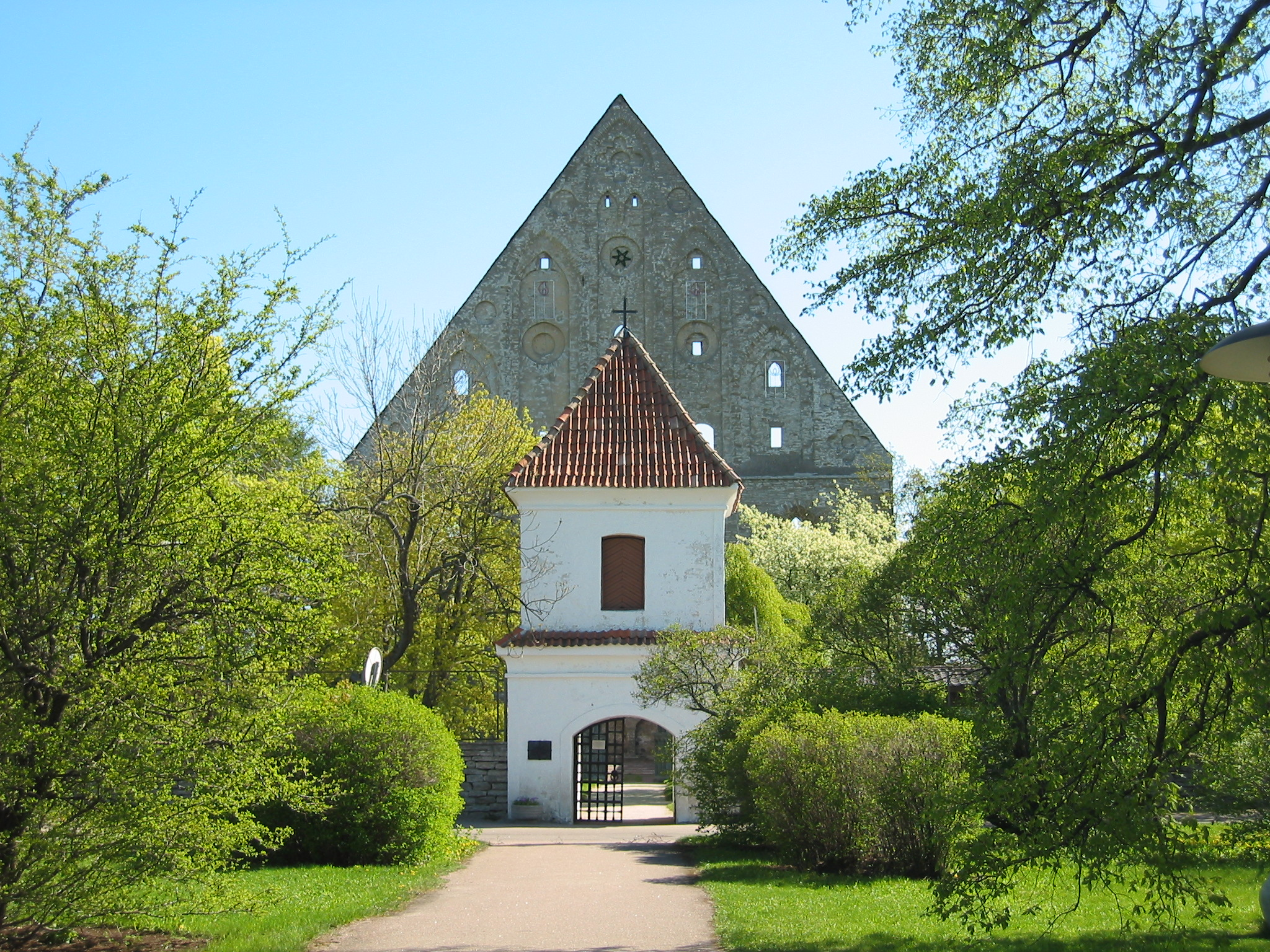 Ruins of St. Birgitta's monestary in Pirita, Tallinn, Estonia.